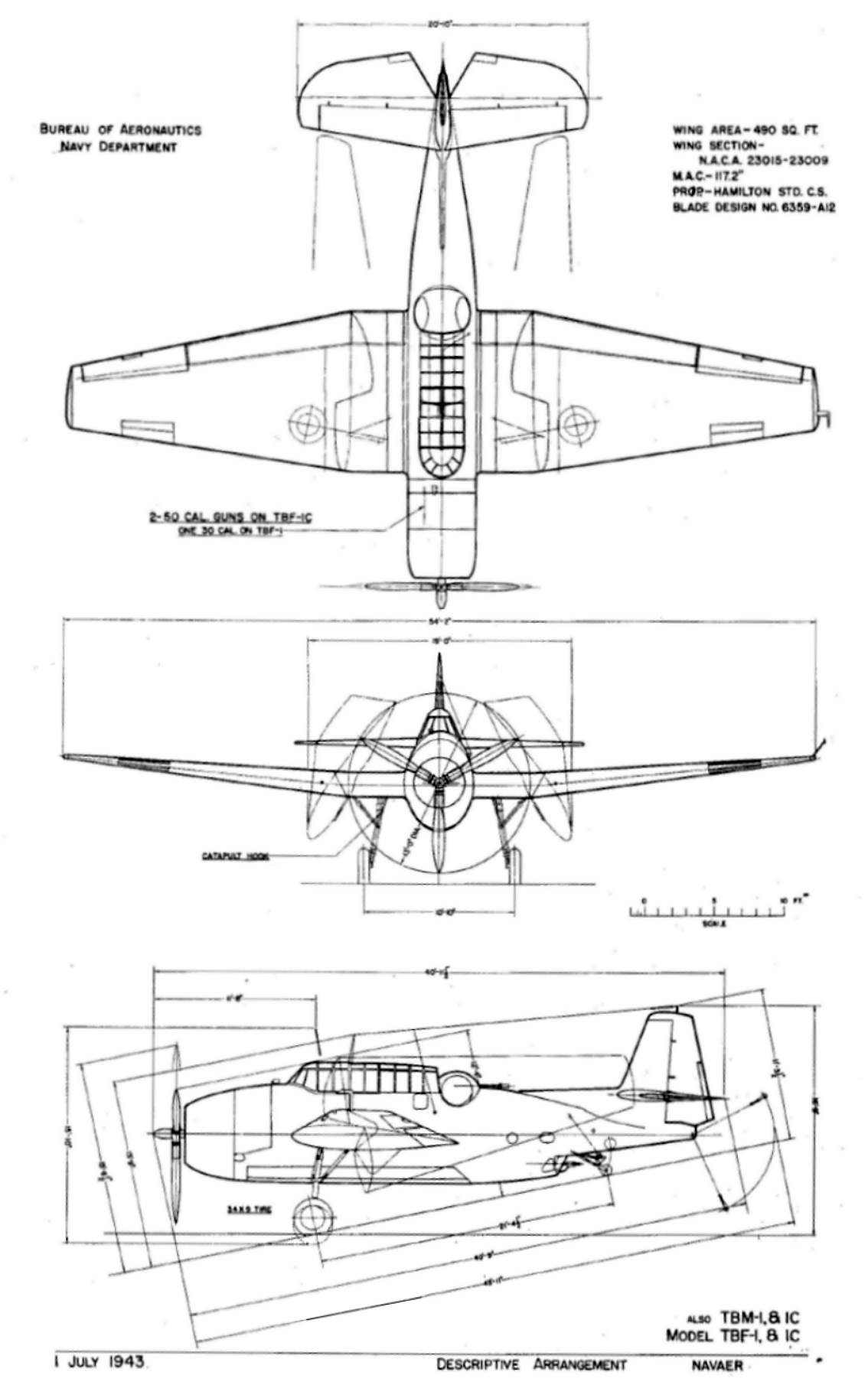 3-side-view of a Grumman TBF-1 Avenger.